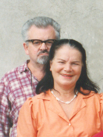 Marek Mietelski with his wife on holidays in Zakliczyn in 1990.